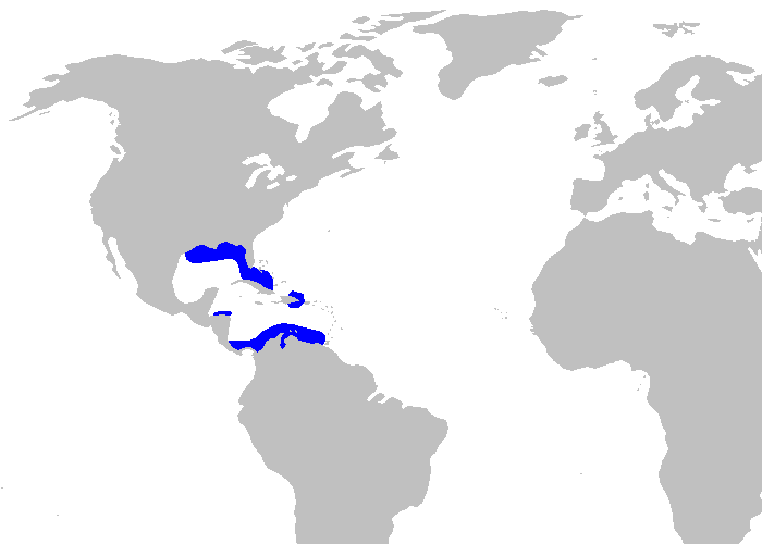 Distribution map for Apristurus riveri